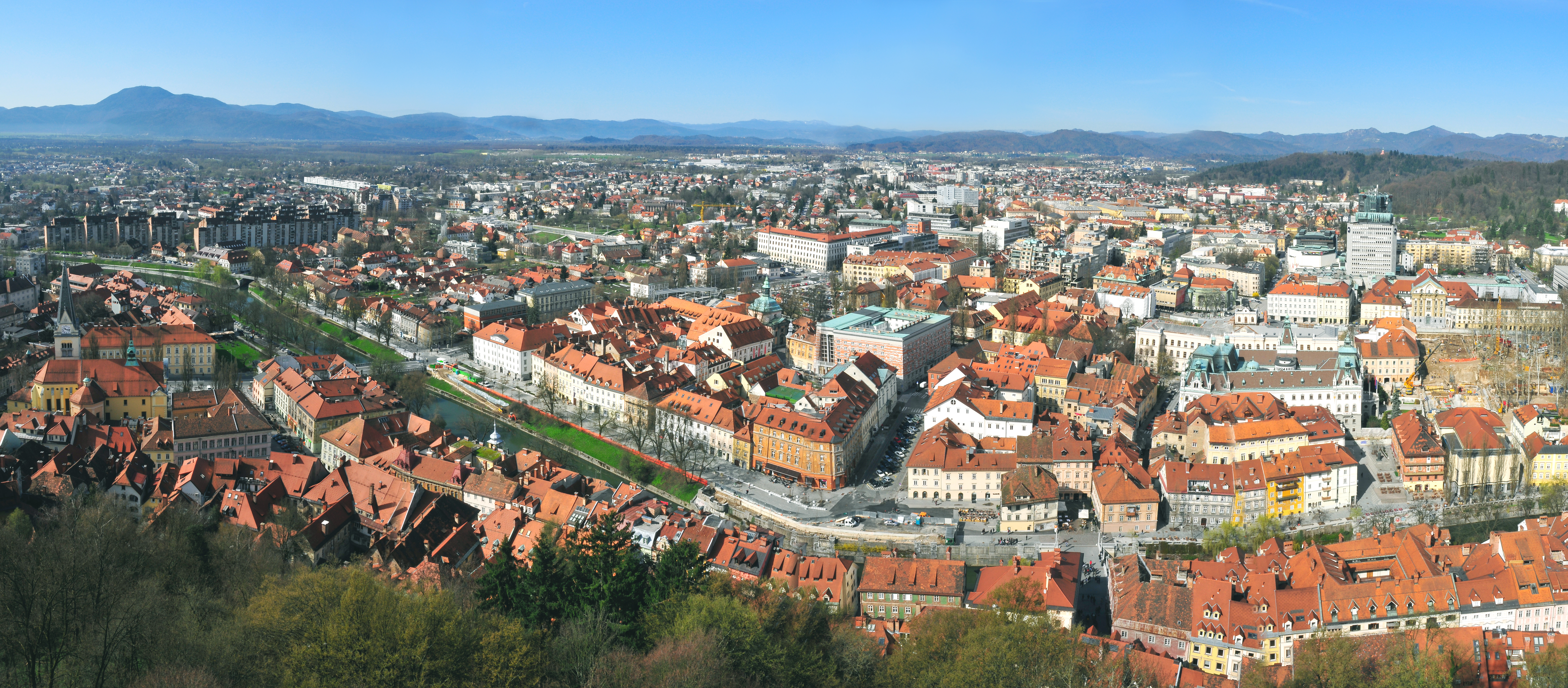 Panoramic of the northwest section of the town. Ljubljana, Slovenia